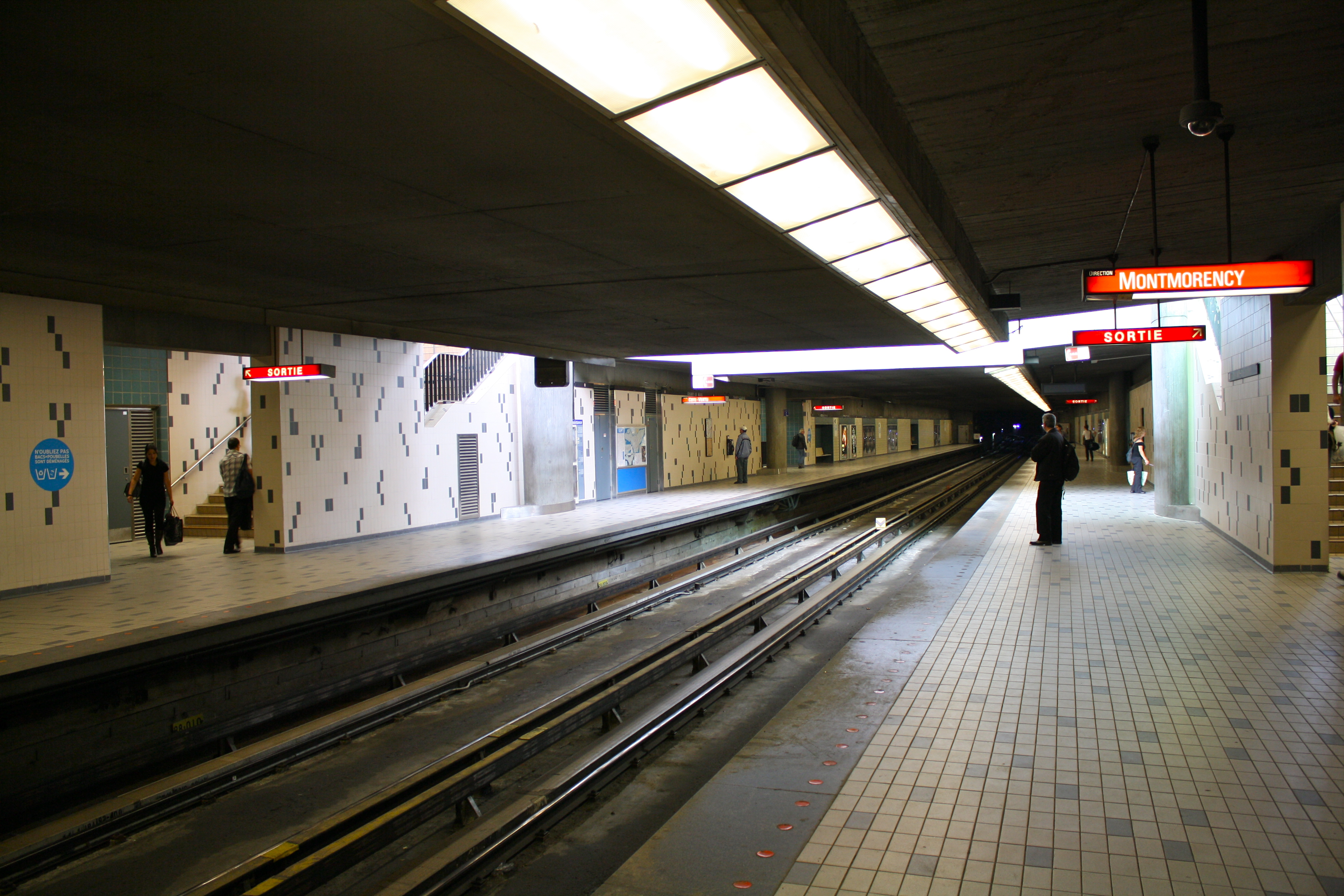 Champ-de-Mars Metro station platform.